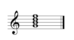 G Dominant seventh chord